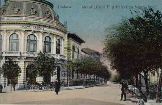 Postcard of the Carol I High School, 1922.